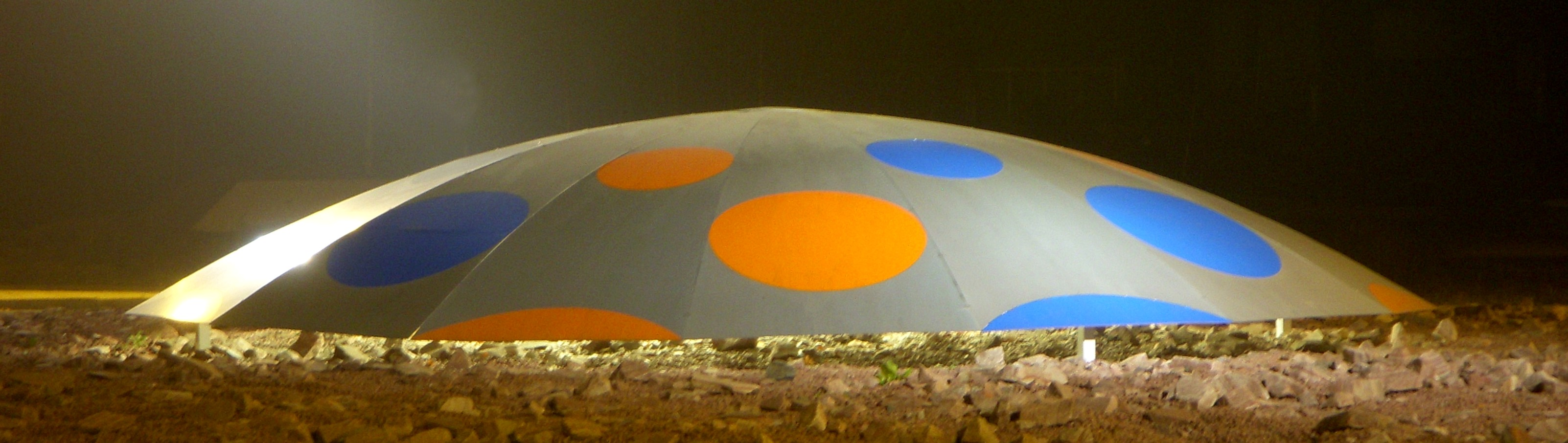 "Lysande Tefat", sculpture by Maria Ängquist-Klyvare in Huddinge, Sweden.